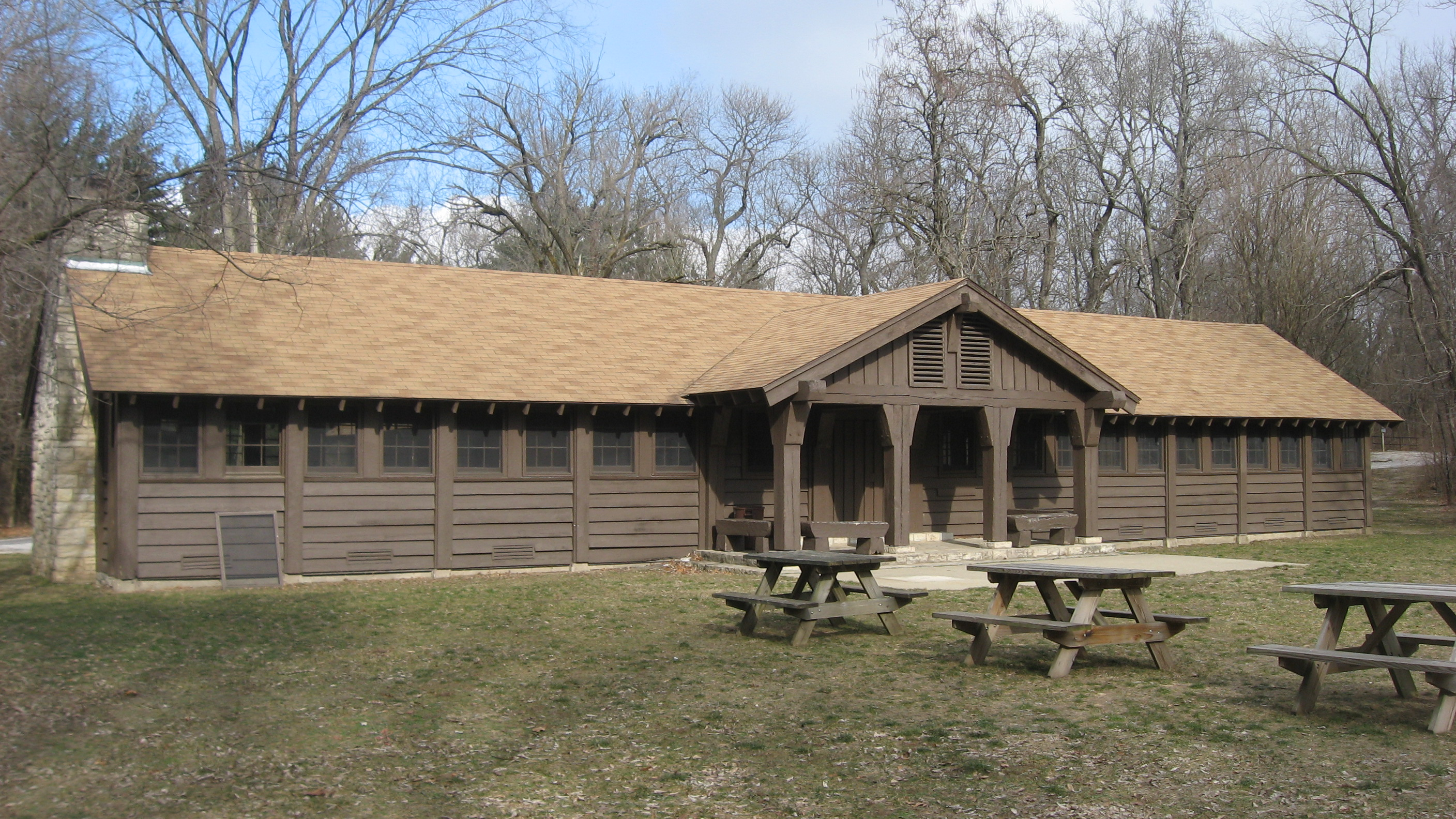 Southern front of Tepicon Hall at Tippecanoe River State Park, located north of Winamac in Franklin Township, Indiana, United States. Built in 1938 as part of the Winamac Recreational Demonstration Area, it is listed on the National Register of Historic Places.